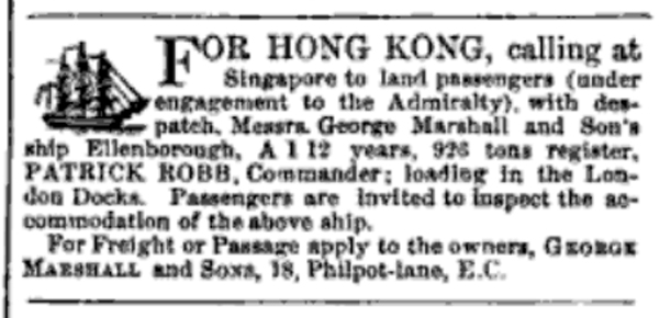 Advertisement for the shipping firm George Marshall and Sons 1869